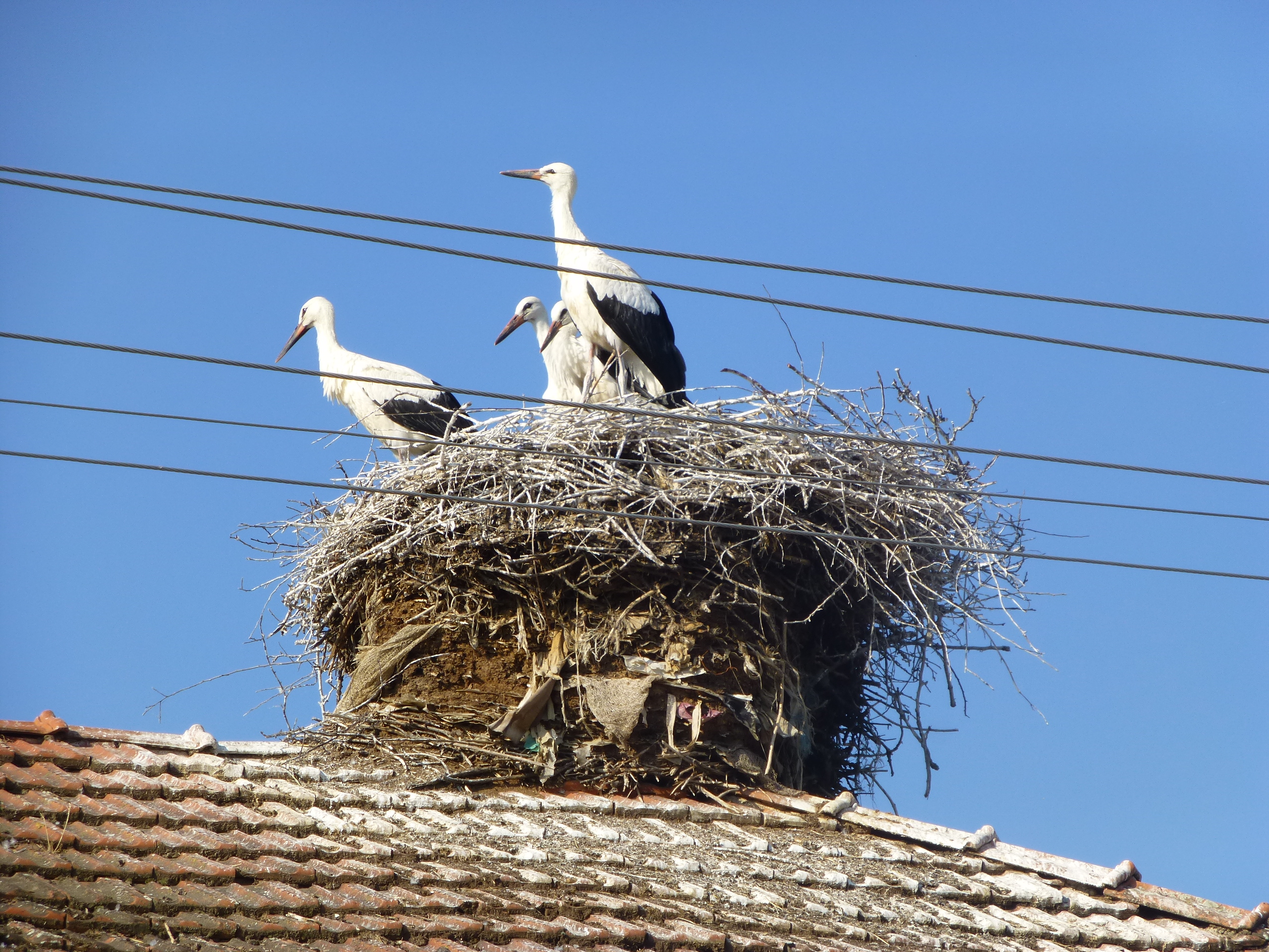 The village of Krivogashtani in Macedonia. Plenty of storchs nest there!